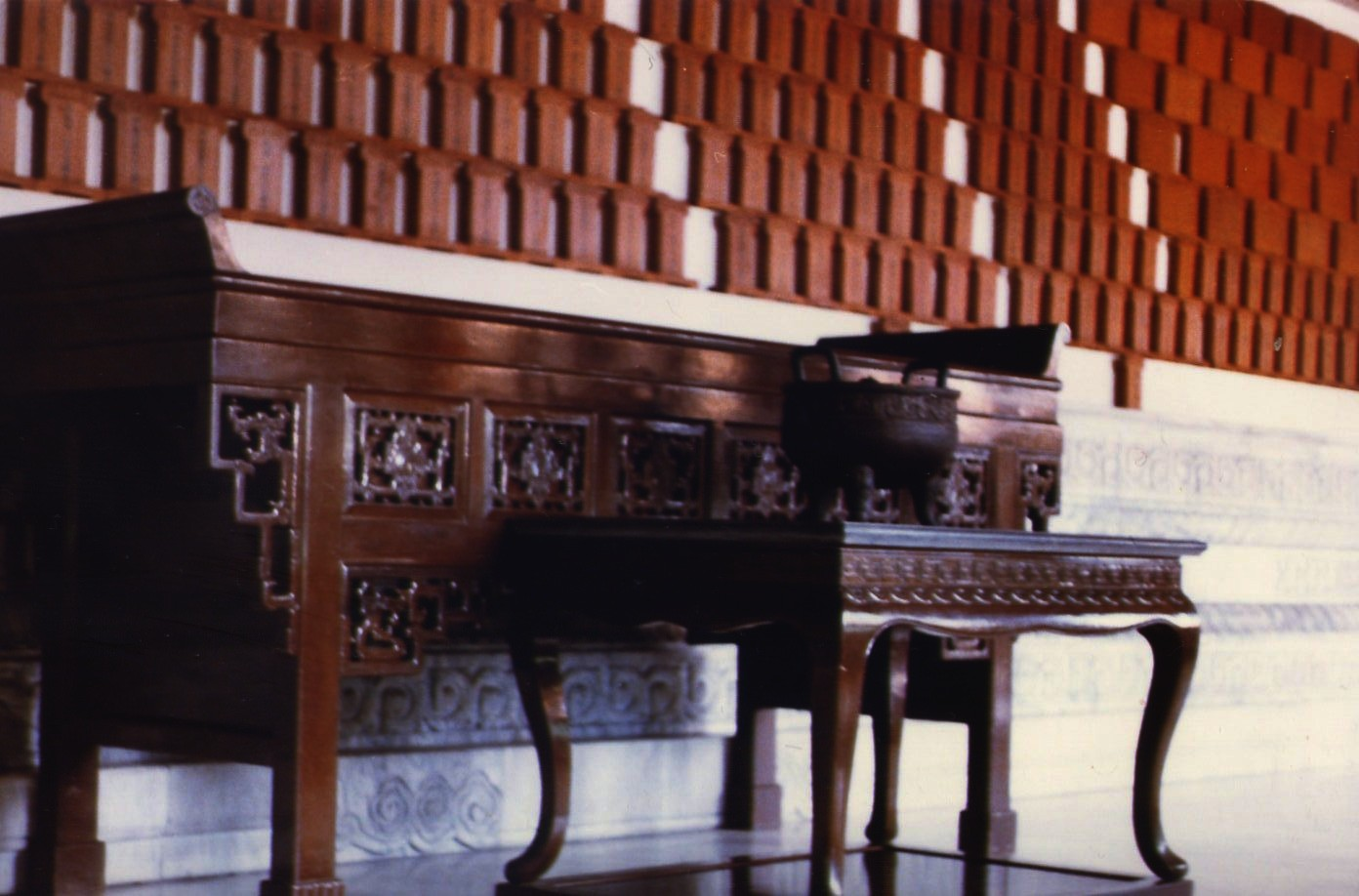 Small incense burner with ancestor worship tablets (official worship of dead national heroes in National Revolutionary Martyr's Shrine, Taipei). Shot in 1990 by the uploader (Miuki)